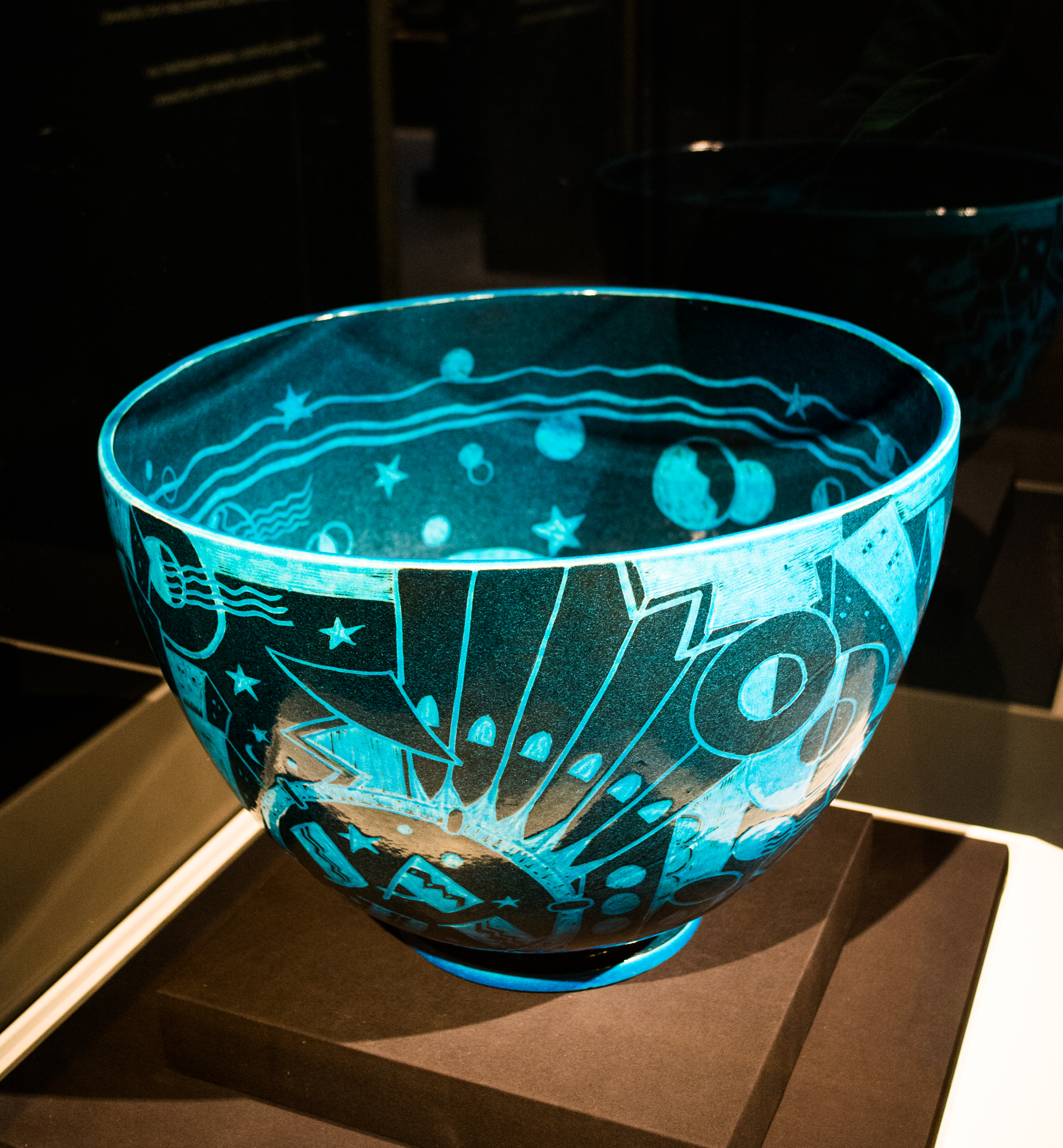 Punch bowl on display as part of the "Jazz Age" exhibit at the Cleveland Museum of Art in Cleveland, Ohio, in the United States. This bowl was designed by Vicktor Schrenkengost (1906-2008) for the Cowan Pottery Studio (1912-1931) of Rocky River, Ohio. Schrenkengost was an industrial designer, teacher, sculptor, and artist whose influence ran very deep in American decorative arts and yet whose name remains obscure even to this day. The bowl was commissioned in 1930 by Lady Eleanor Roosevelt to commemorate Franklin D. Roosevelt's second inauguration as governor of New York. It is titled "New Yorker", and sometimes referred to as "Jazz". The punch bowl is molded earthenware, and features Art Deco designs intended to reflect the vibrancy of New York City jazz club nightlight. The glazing is in the sgraffito style, in which two successive layers of contrasting glaze are applied to unfired earthware. The outer layer is then scratched away to reveal the layer beneath. CMAJazzAge